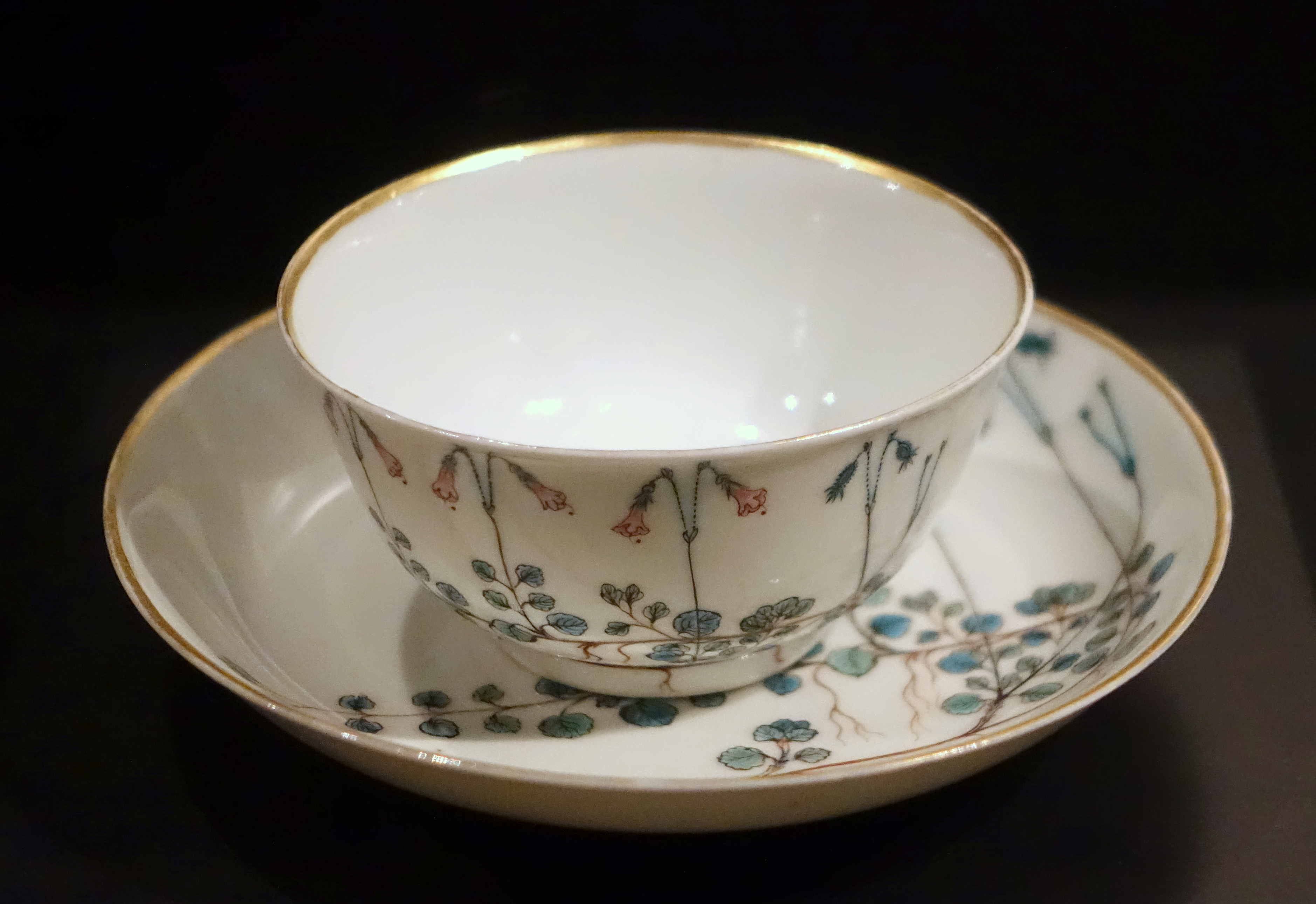 Exhibit in the Östasiatiska museet, Stockholm, Sweden. This artwork is old enough so that it is in the public domain.